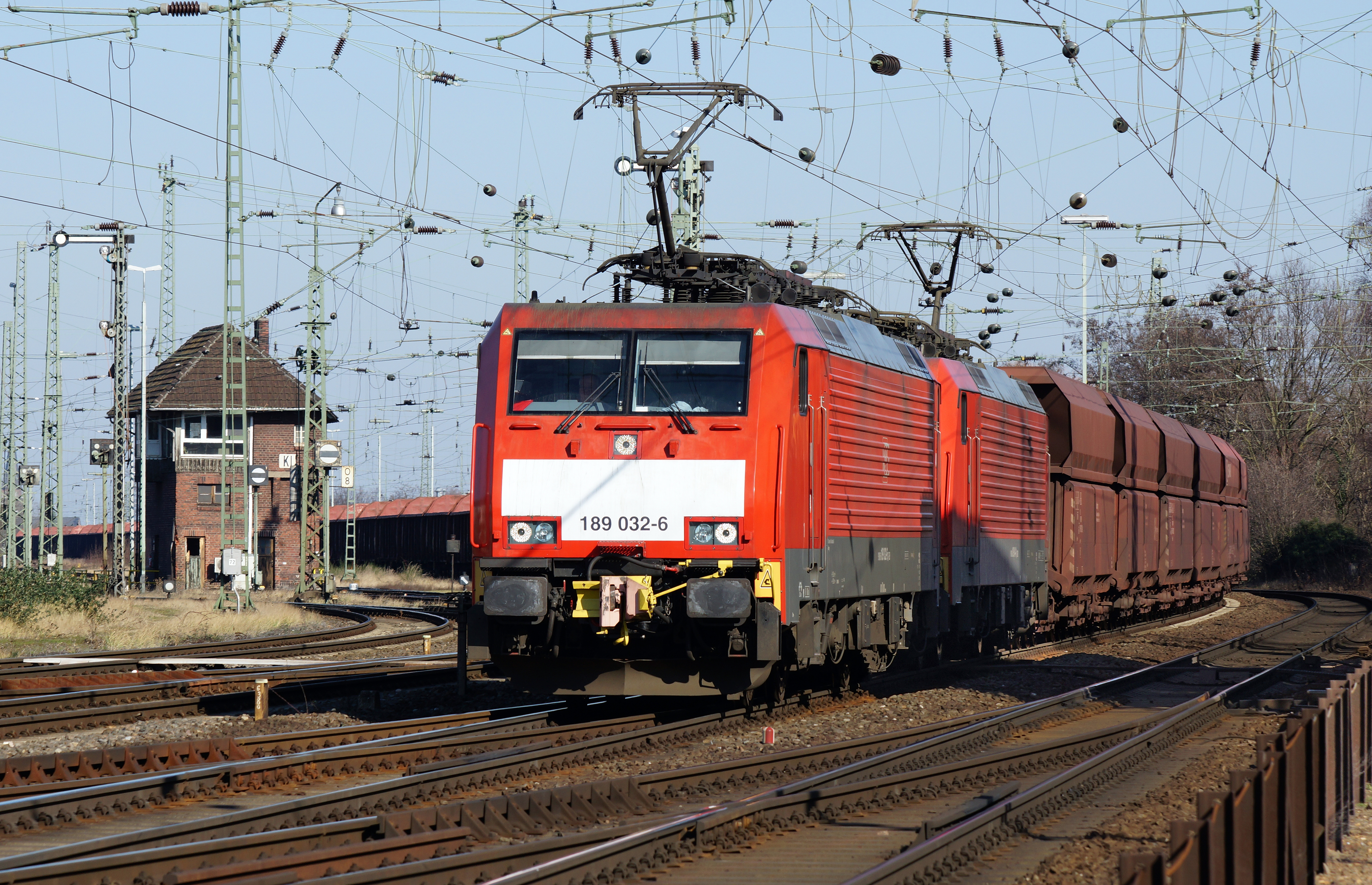 DBAG 189 032-6 in the near of the marshalling yard Köln-Kalk Nord